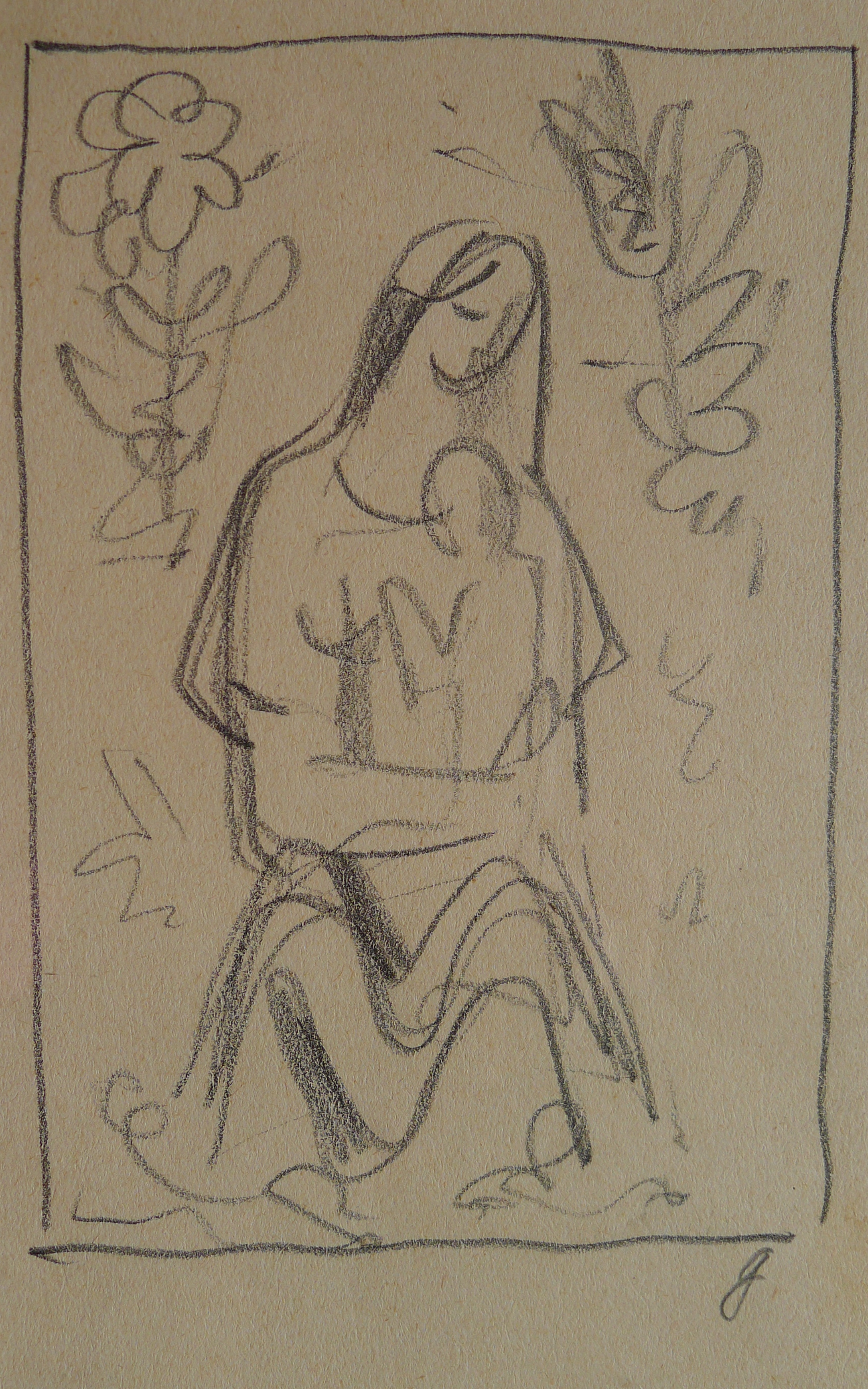 Mikulas Galanda